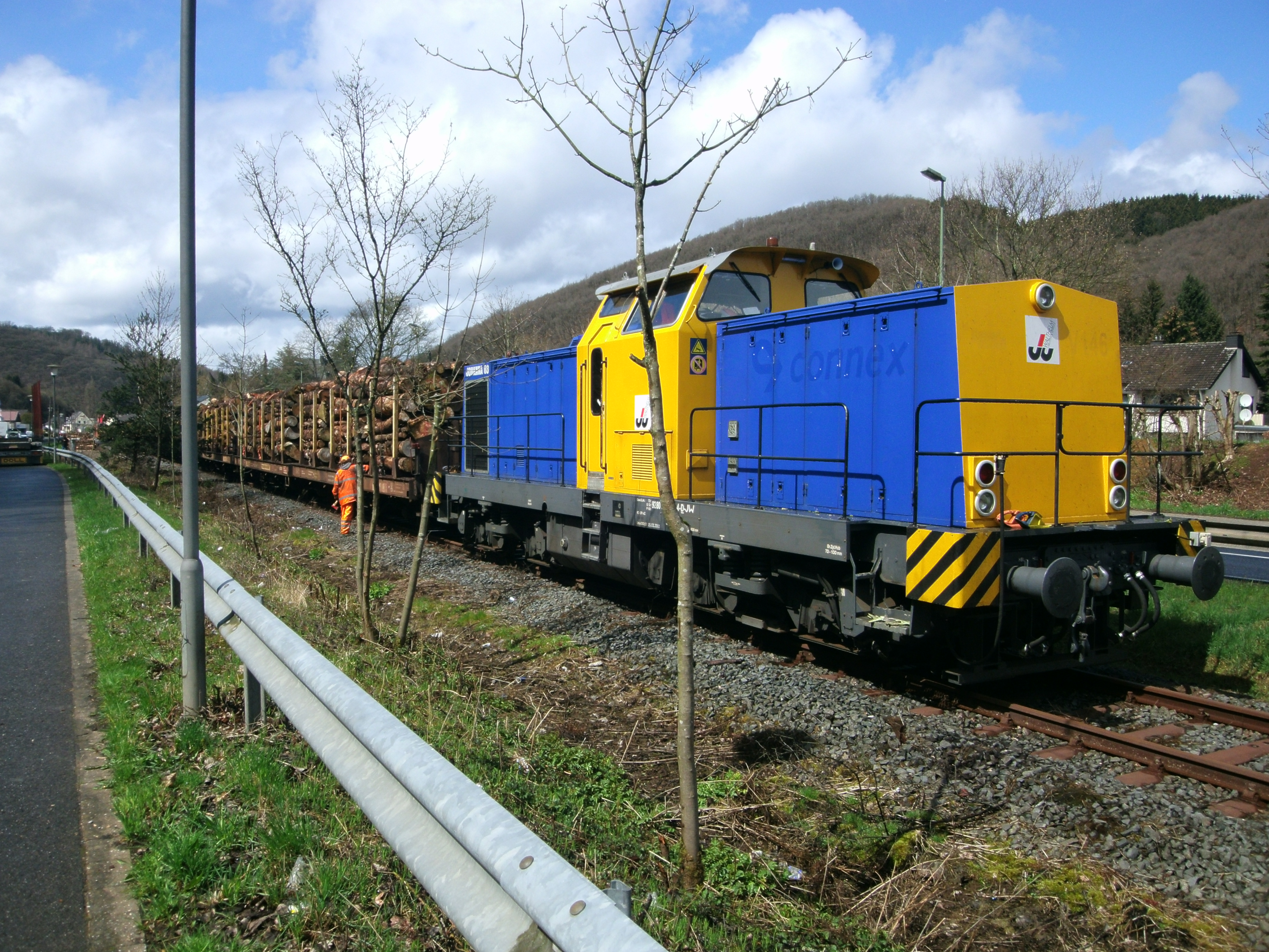 wood-freight train at Gemünd, Oleftalbahn